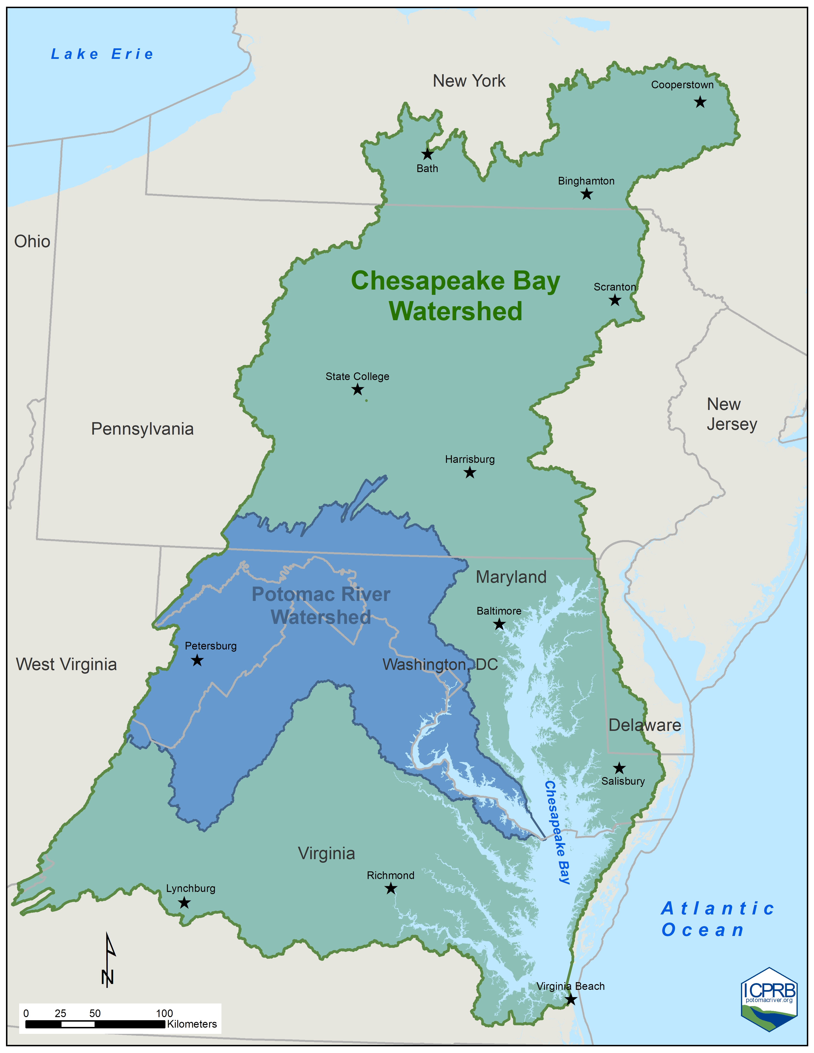 The Potomac River is the 2nd largest watershed in the Chesapeake Bay.